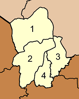 Map of Bang Khan district, Nakhon Si Thammarat province, Thailand, with the communes (tambon) numbered. Bang Khan (บางขัน) Ban Lam Nao (บ้านลำนาว) Wang Hin (วังหิน) Ban Nikhom (บ้านนิคม)